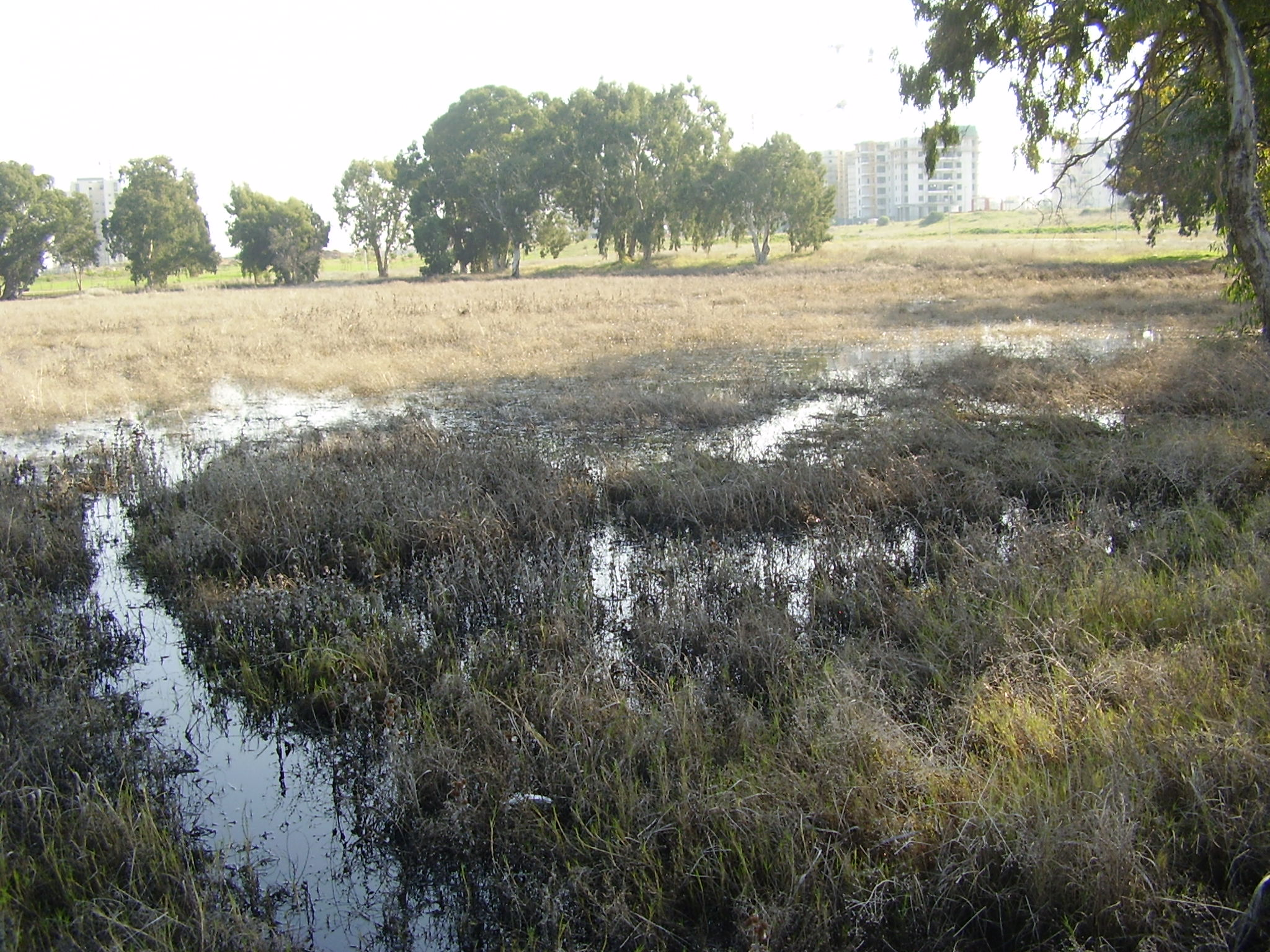 Winter Puddle Park in Netanya